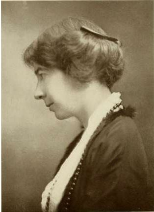 Notable women of St. Louis, 1914; by Johnson, Anne (André) "Mrs. Charles P. Johnson", 1871- Publication date 1914 Topics Women Publisher [St. Louis, Woodward Collection library_of_congress; americana Digitizing sponsor Sloan Foundation Contributor The Library of Congress Language English Call number 273387 Camera Canon 5D Identifier notablewomenofst00john Identifier-ark ark:/13960/t0tq66z8n Identifier-bib 00145723176 Ocr ABBYY FineReader 8.0 Openlibrary_edition OL6566619M Openlibrary_work OL7734088W Pages 522 Possible copyright status NOT_IN_COPYRIGHT Ppi 300 Scandate 20090203222701 Scanfactors 4 Scanner Scanningcenter capitolhill Full catalog record MARCXML